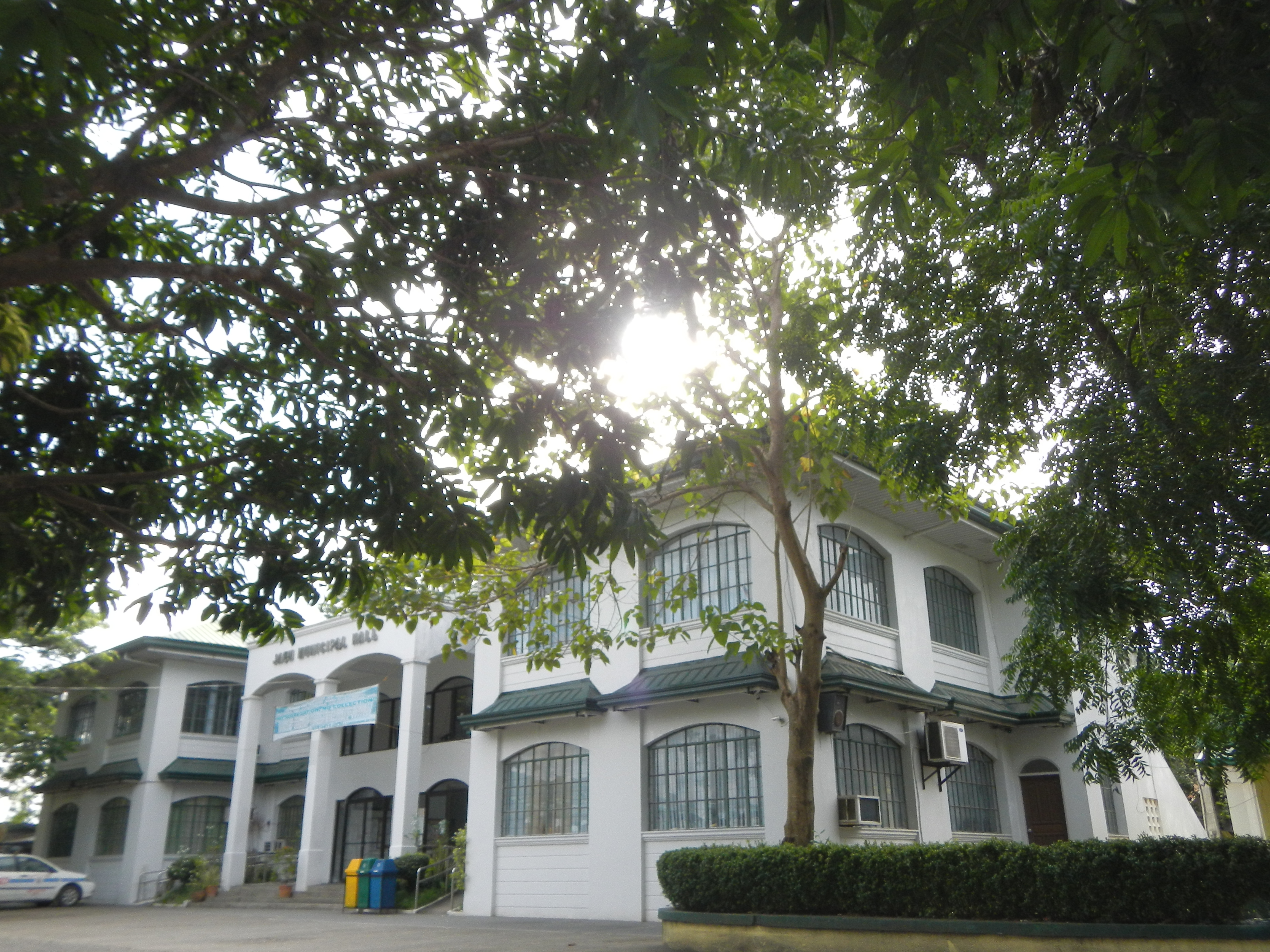 Town Hall, Jaen, Nueva Ecija[1]